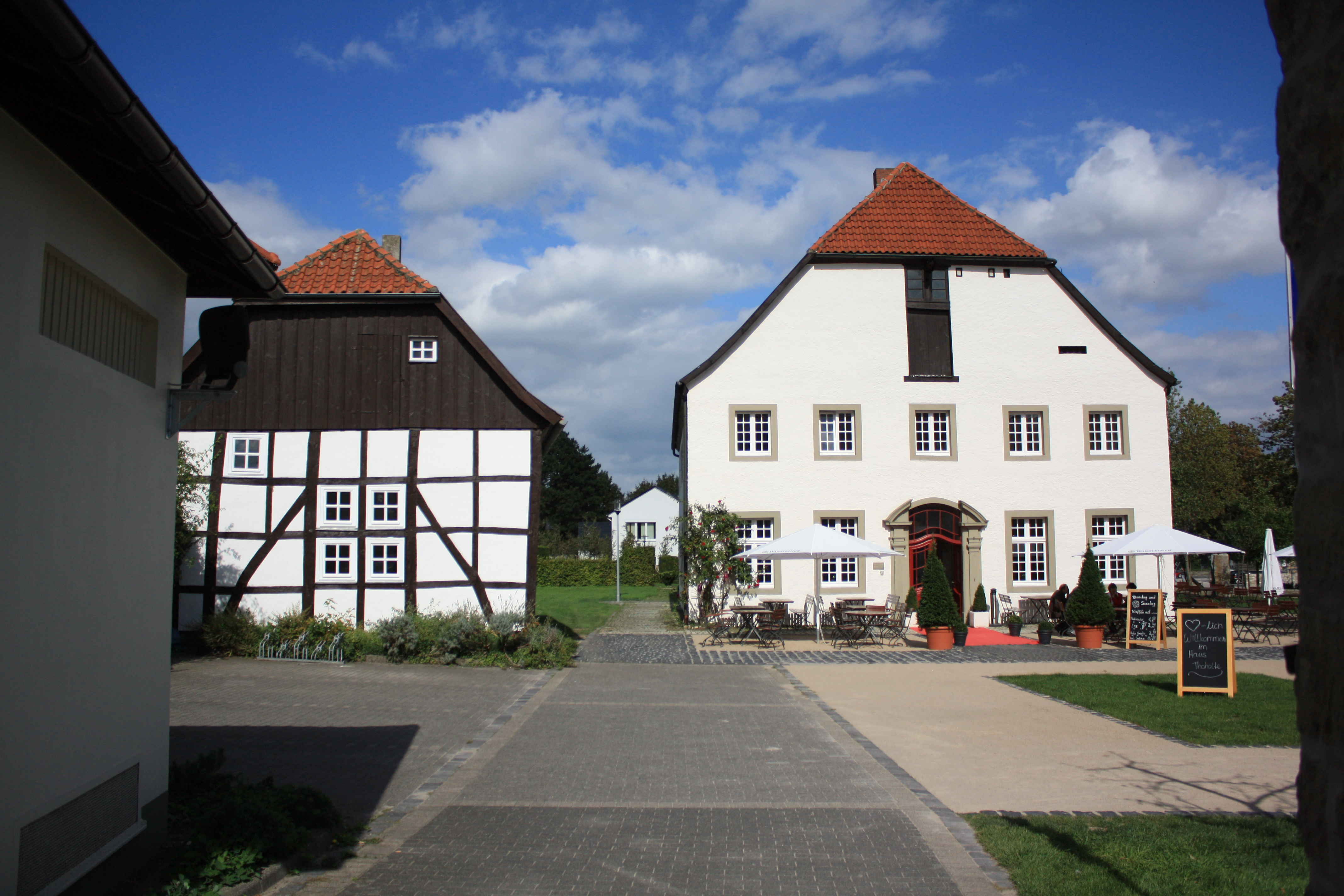 A geocoded location could be added to this image. Visit Commons:Geocoding for information on how to add coordinates. Beta-test: Add coordinates helps to determine coordinates. Haus Thoholte in Geseke This is a photograph of an architectural monument.